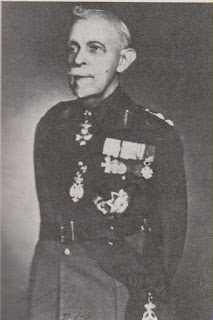 Aristotelis Vlachopoulos ( 1866–1960) lieutenant-general of Greek Army